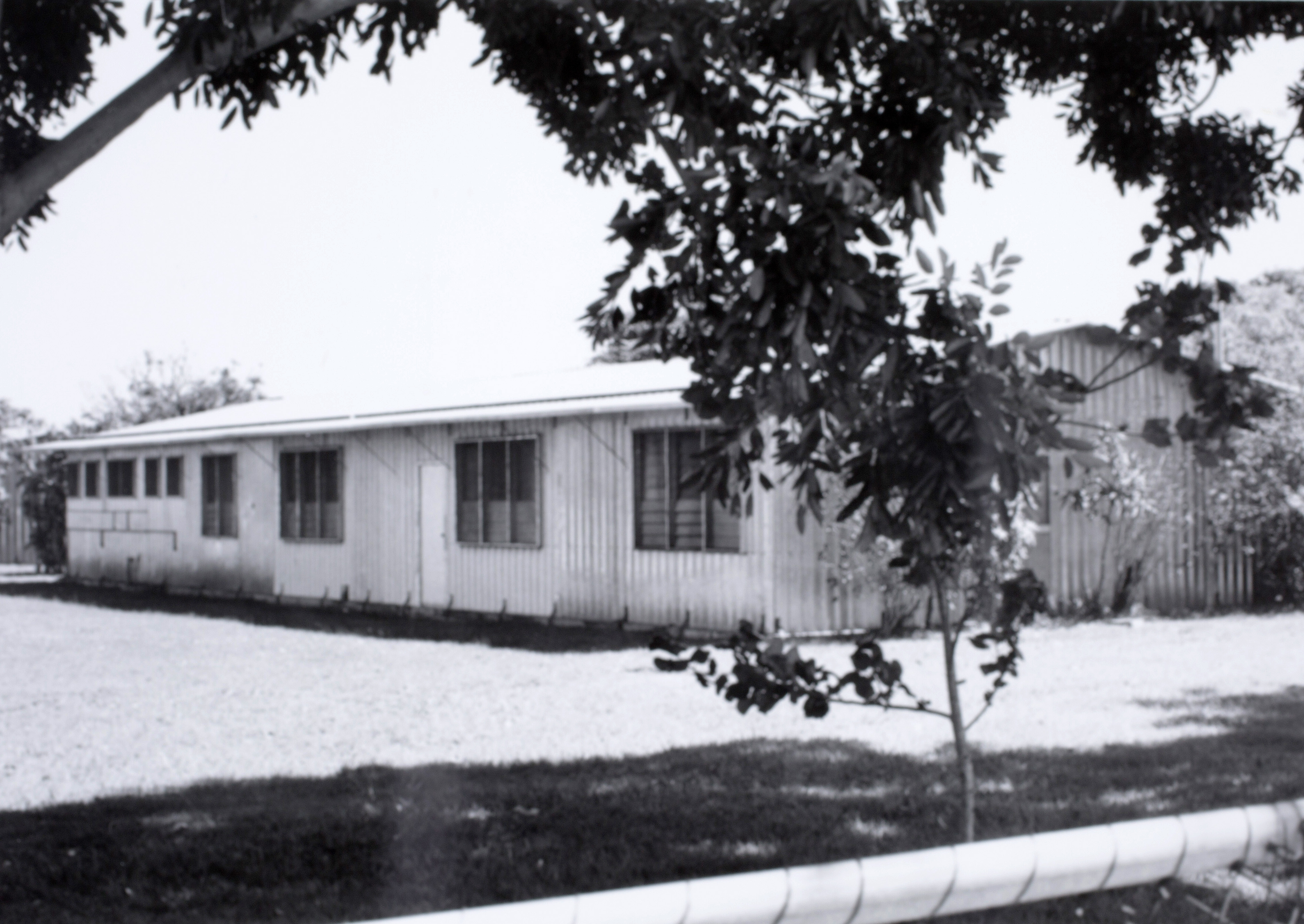 Retta Dixon Home, Darwin, Northern Territory, Australia - PH0219-0312